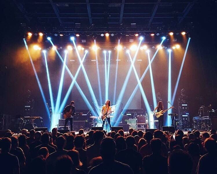 The Kickback performing at Coca-Cola Roxy in Atlanta